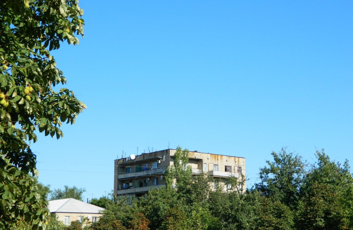 Chernihivka, Zaporizhia Oblast